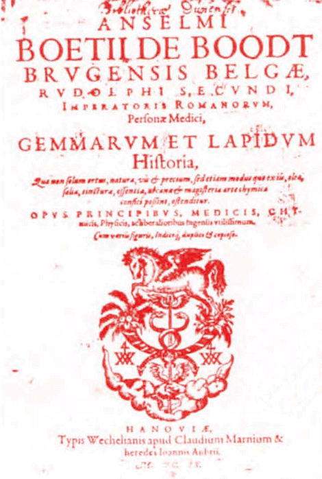 Title page of the Gemmarum et Lapidum Historia